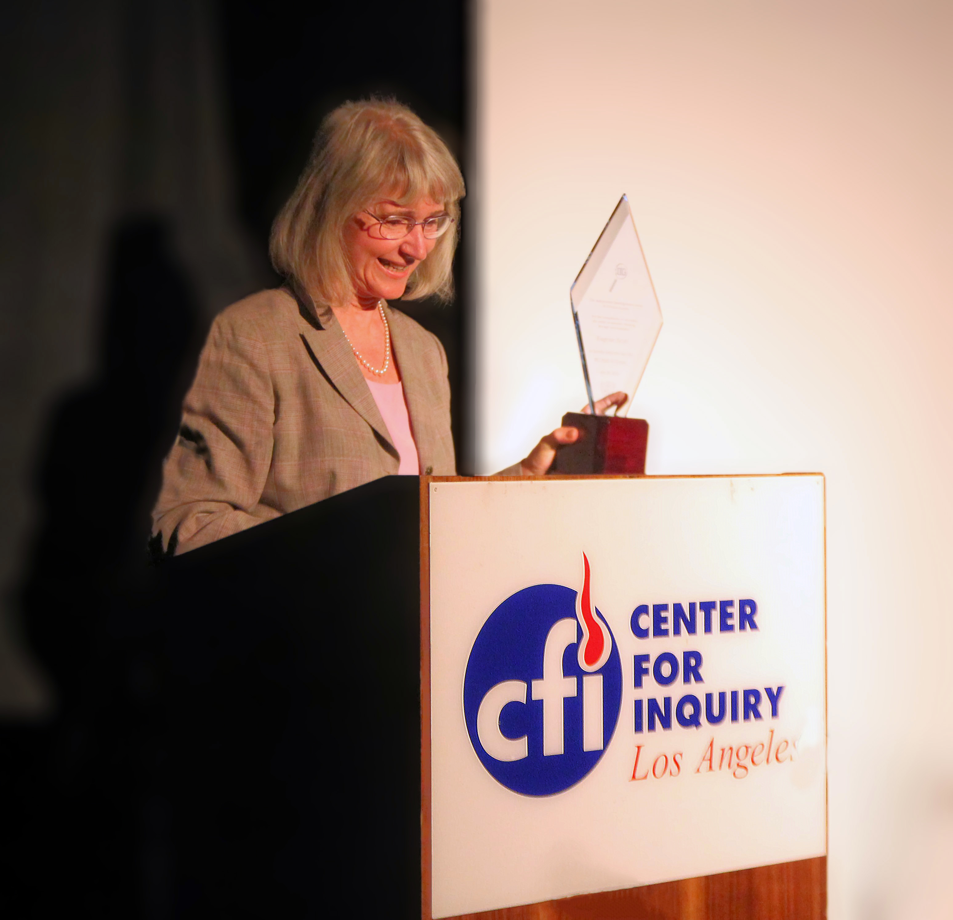 Eugenie Scott receiving the Houdini Hall of Honor award from the IIG